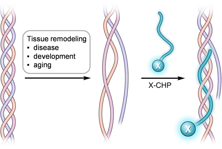 During disease progression, tissue development, or aging, collagen can be extensively degraded by collagenolytic proteases, causing its triple helix to unfold at the physiological temperature due to reduced thermal stability. X may represent a biotin or fluorescent tag.